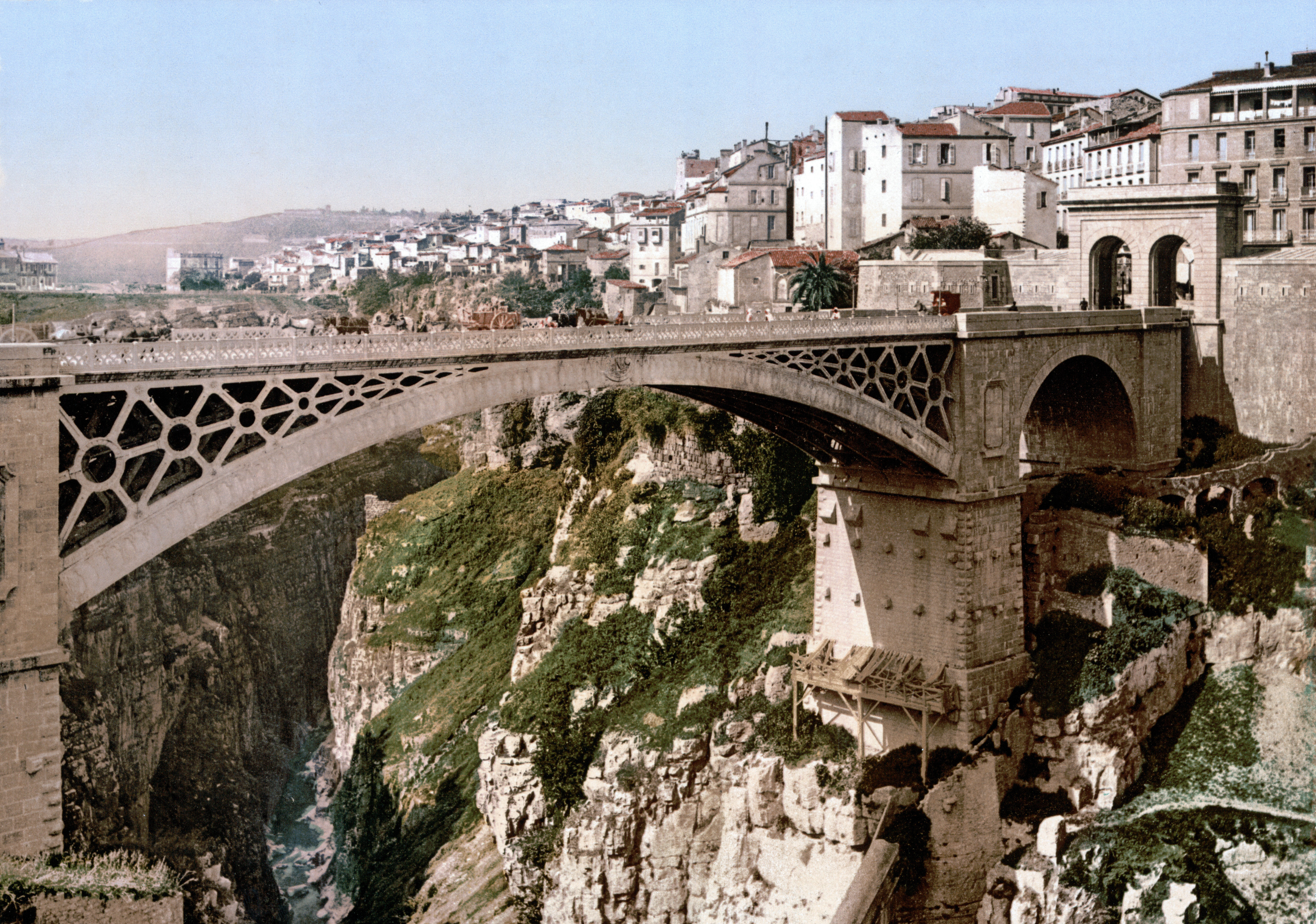 Bridge in Constatine (Algeria, 1899).